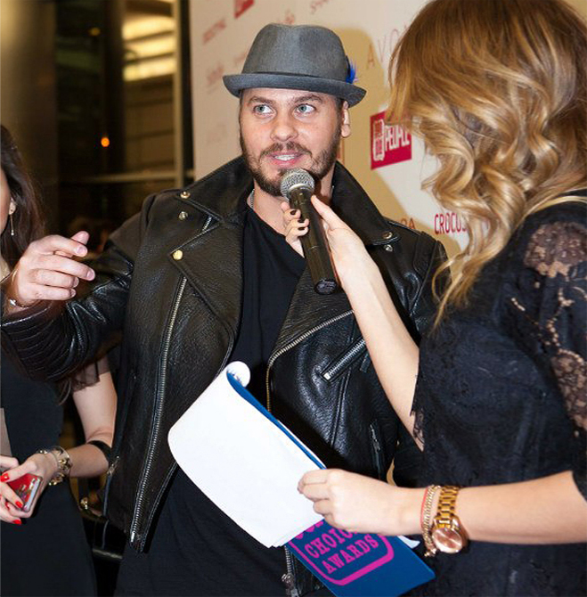 Andrey Batt at the Ooos! Magazine "Oops! Choise Awards" 2014